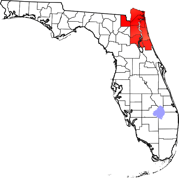 A map of Florida highlighting the Greater Jacksonville Metropolitan Plus Putnam and Flagler counties.